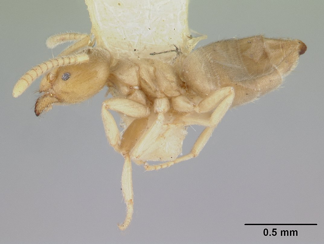 Profile view of ant Arnoldius flavus specimen casent0178491.